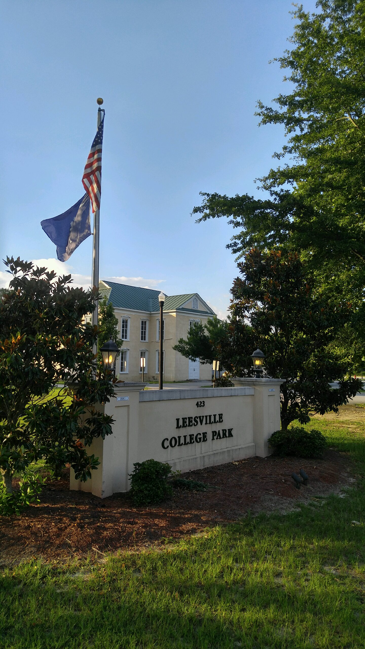 Leesville College Park and old classroom building